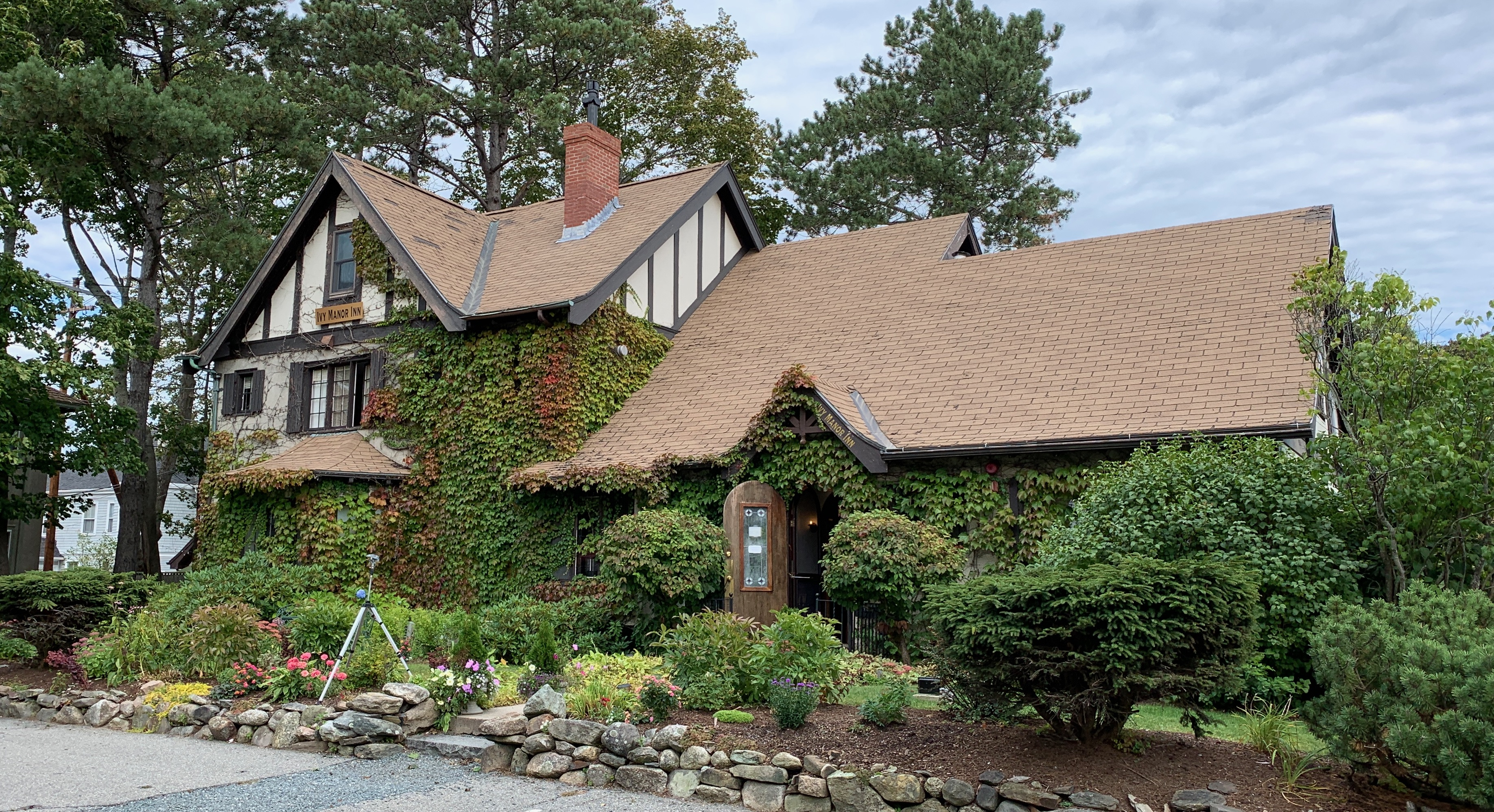 Ivy Manor Inn, September 2019.